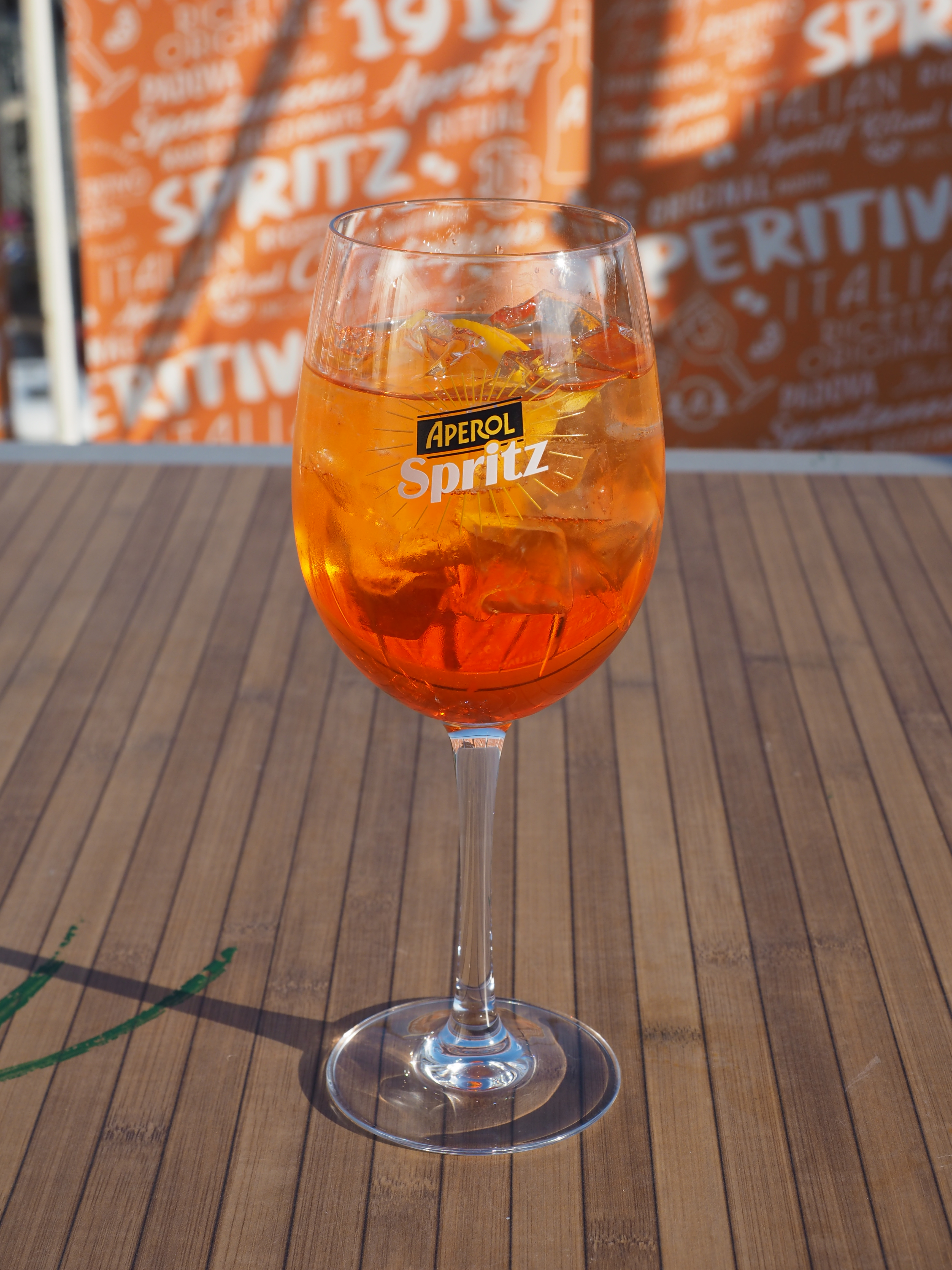 A glass of Aperol Spritz on a table at the deck bar of Viking Mariella.